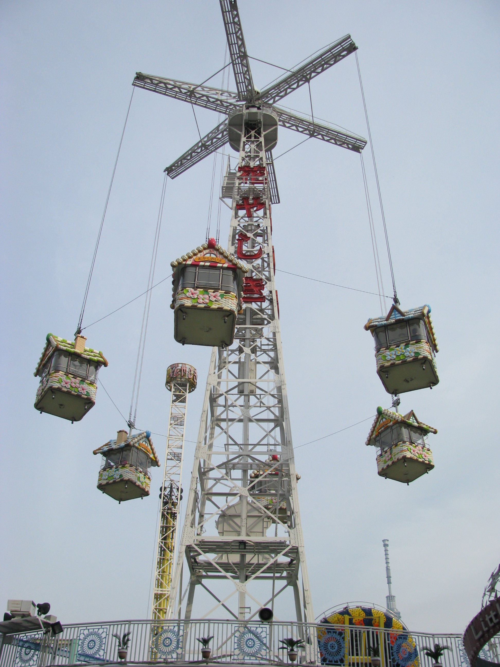 The Asakusa Hanayashiki. This place is Asakusa in Taitō, Tokyo, Japan.